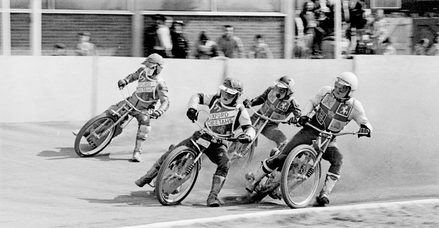 Speedway match